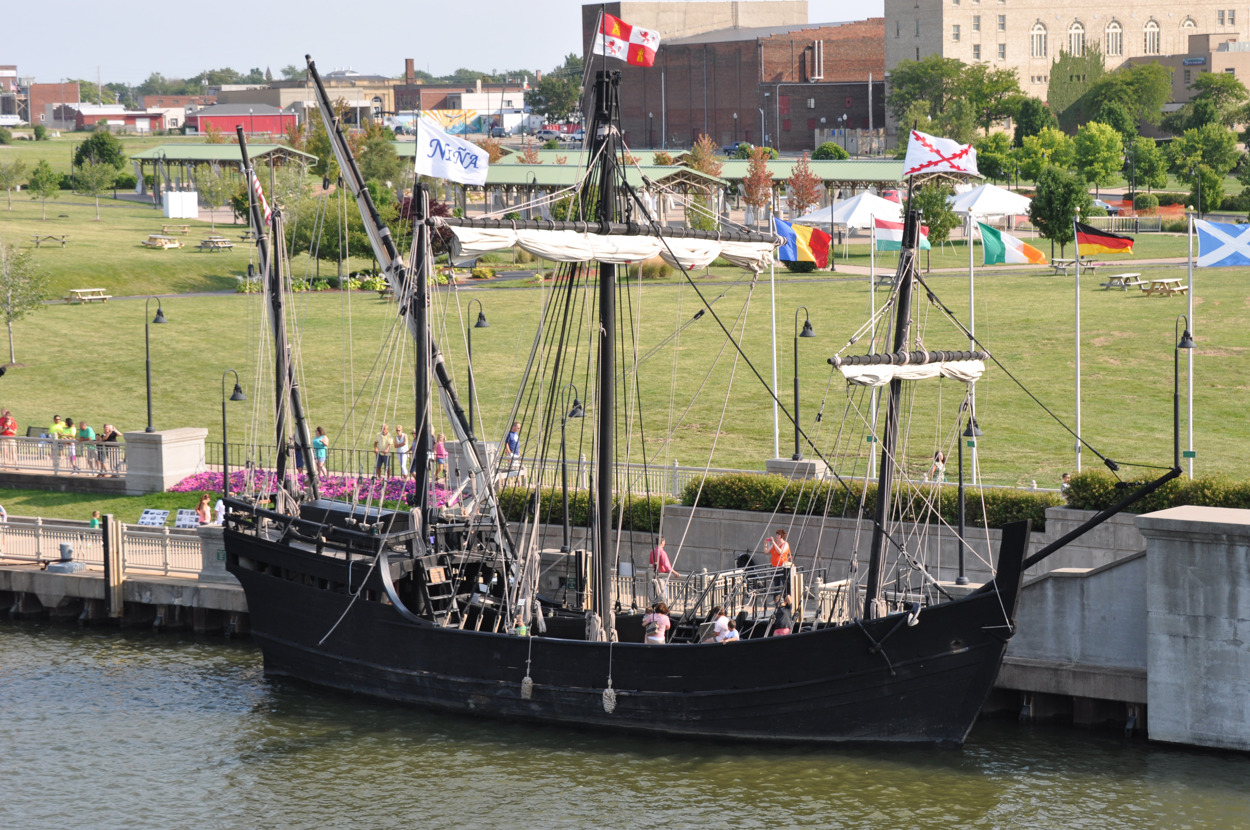 The Columbus Foundation Nina replica moored in Lorain, Ohio, USA. August 2014.